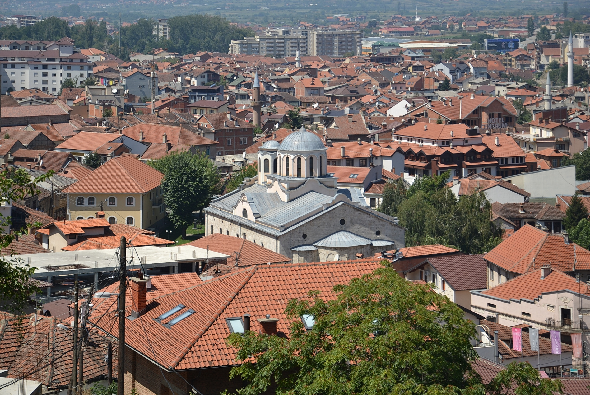 St. George Cathedral in Prizren, Kosovo